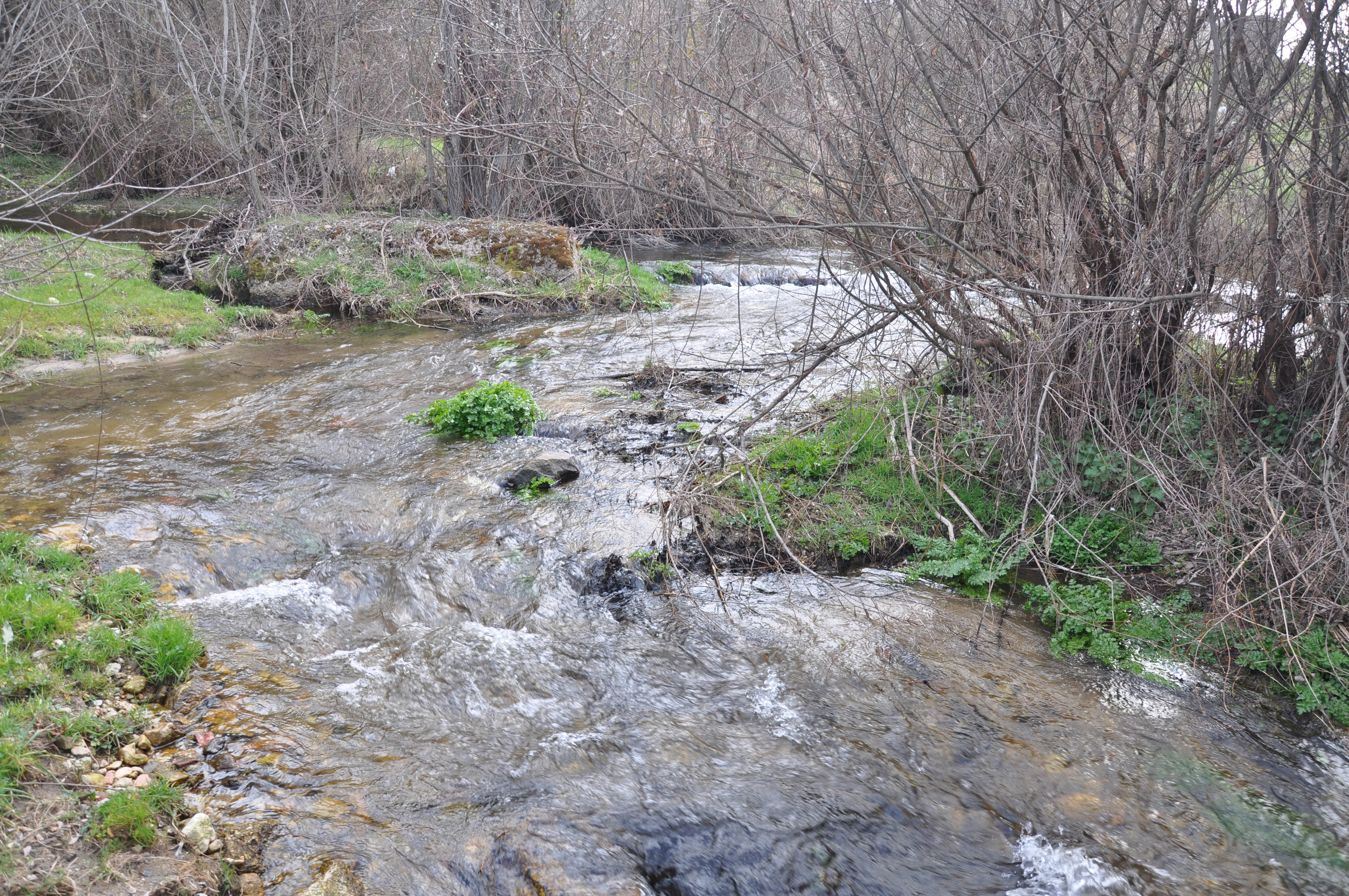 Mayor river in the province of Ávila, Spain